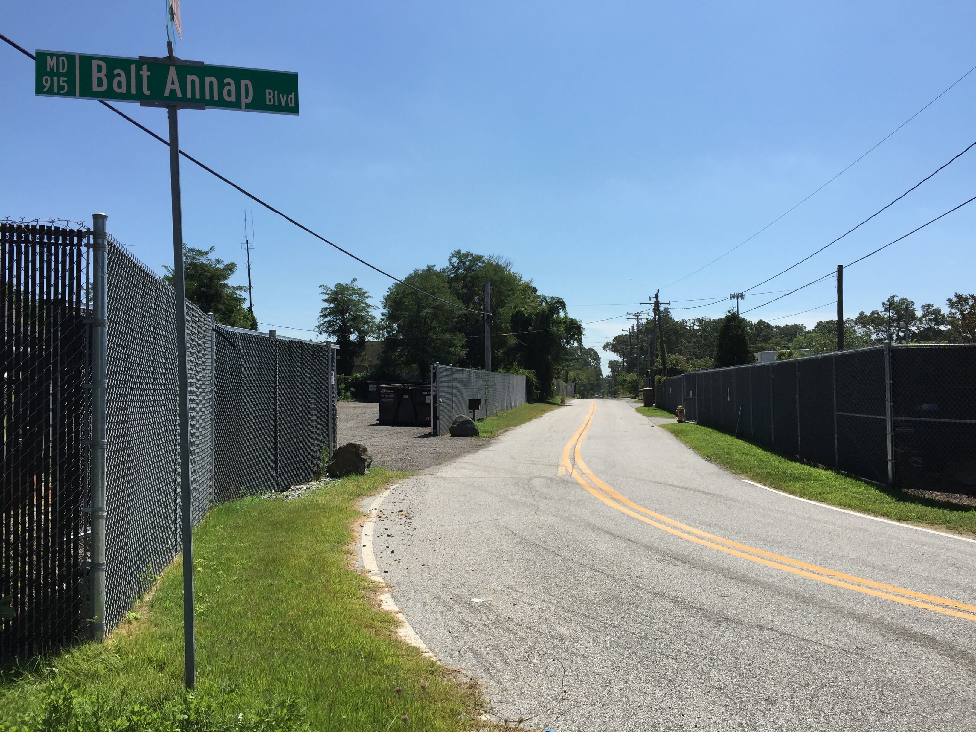 View south along Maryland State Route 915 (Baltimore-Annapolis Boulevard) at Ember Drive in Pasadena, Anne Arundel County, Maryland